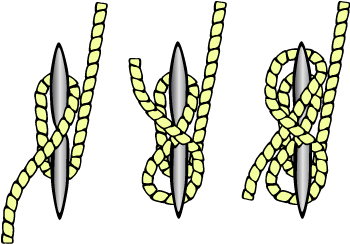 Illustration of tying a cleat knot.